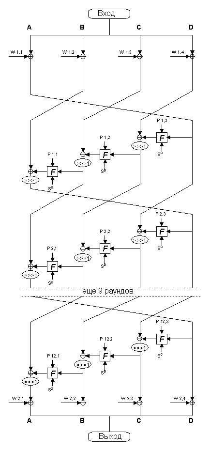 Encryption with Cobra cipher